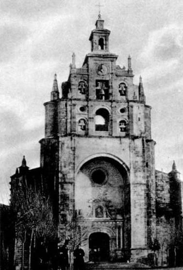 Torre de la Basílica de Begoña en 1854